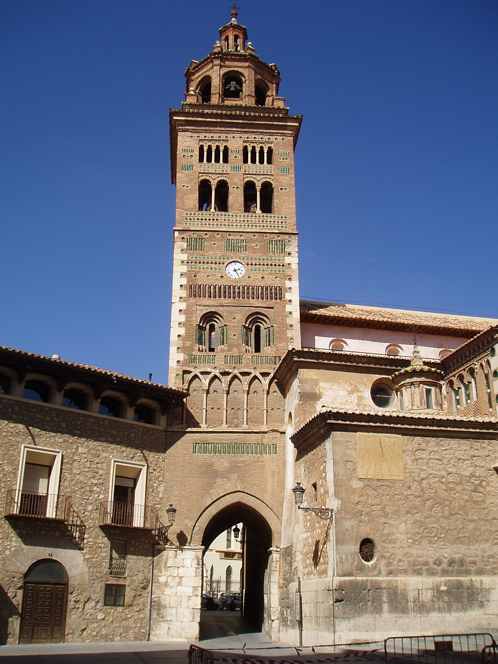 Tower of the Cathedral of Teruel, Spain.